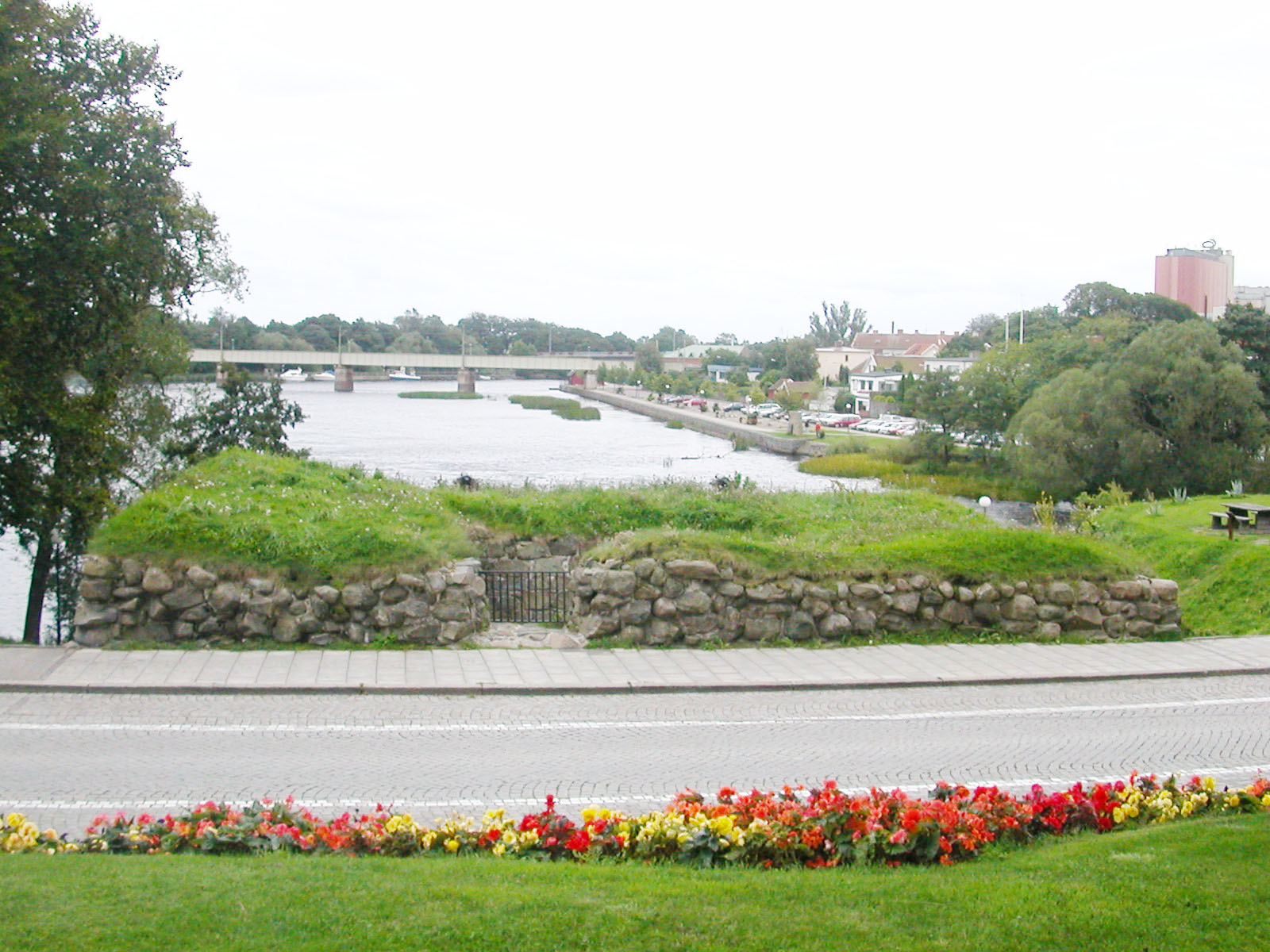 The Falkenberg Fort, Falkenberg, Sweden destroyed 1434 by Engelbrekt.